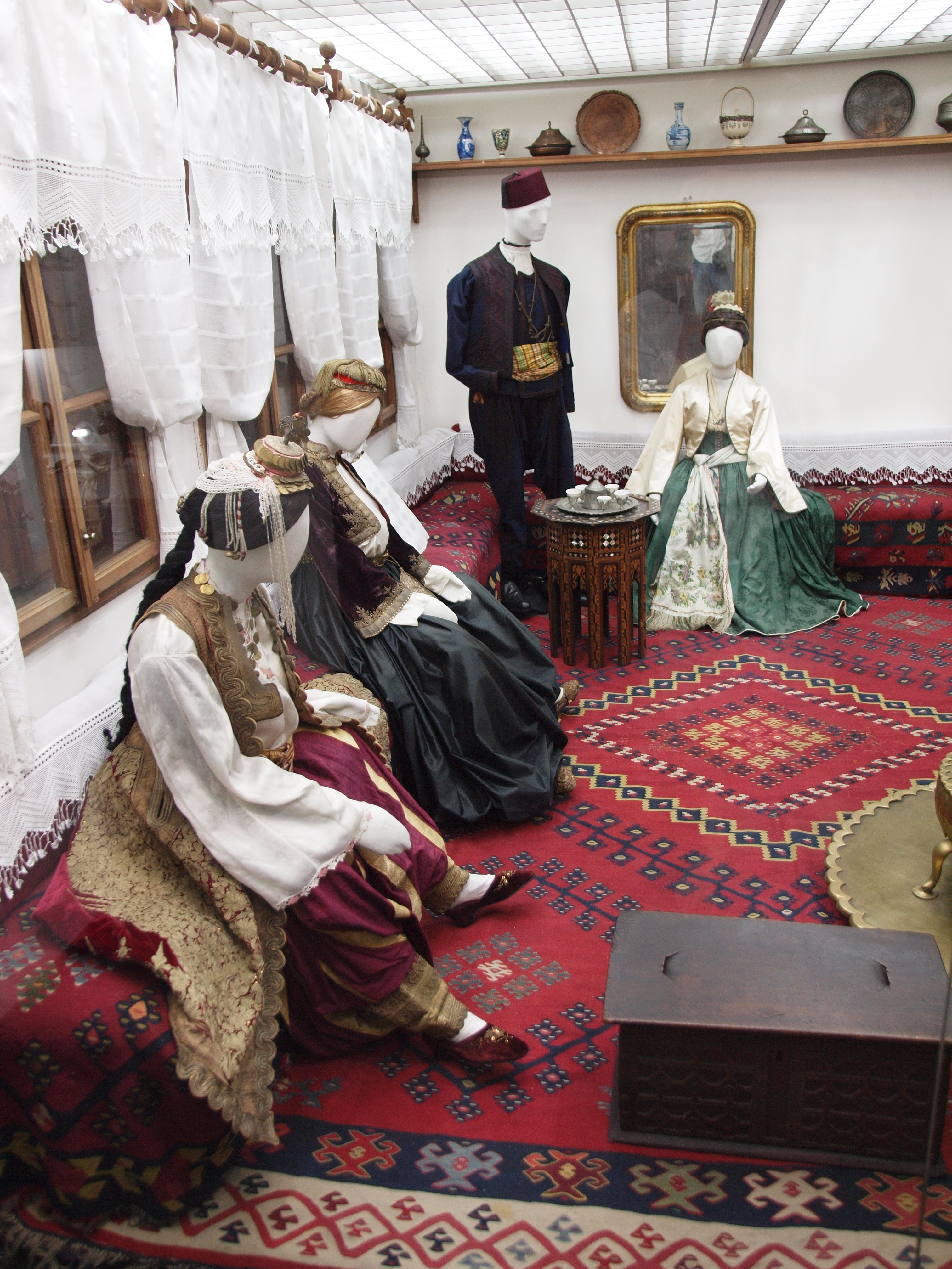 Pirot kilim interior design Ethnographical museum